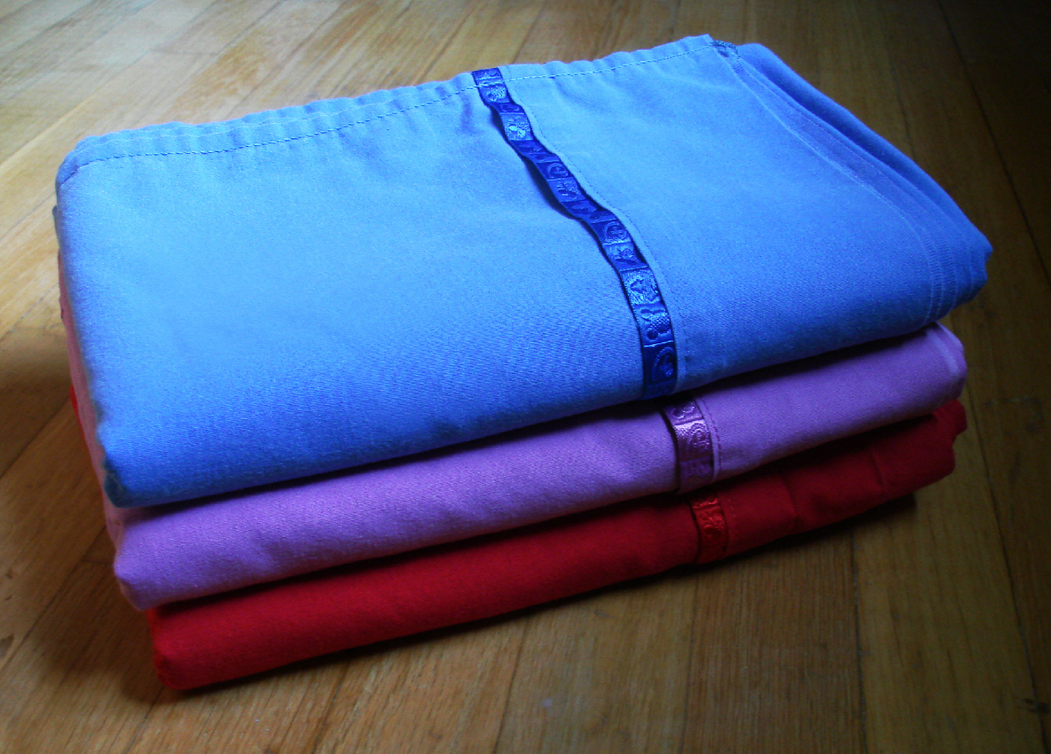 flat sheets